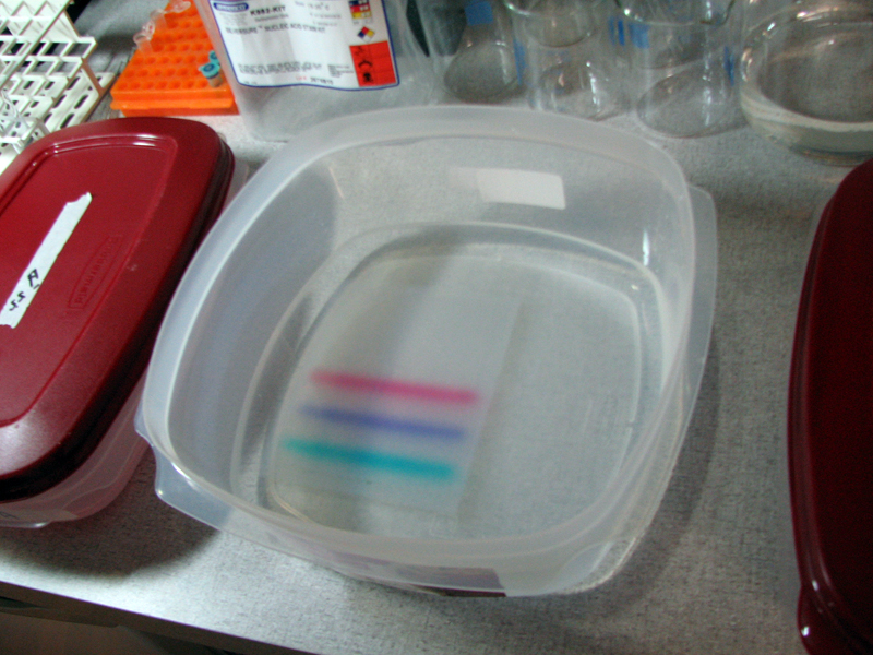 Silversure staining instead of Ethidium bromide (EtBr). Etbr is a "potent mutagen" but it turns out its alternatives are corrosive, toxic and oxidizing (combustable).